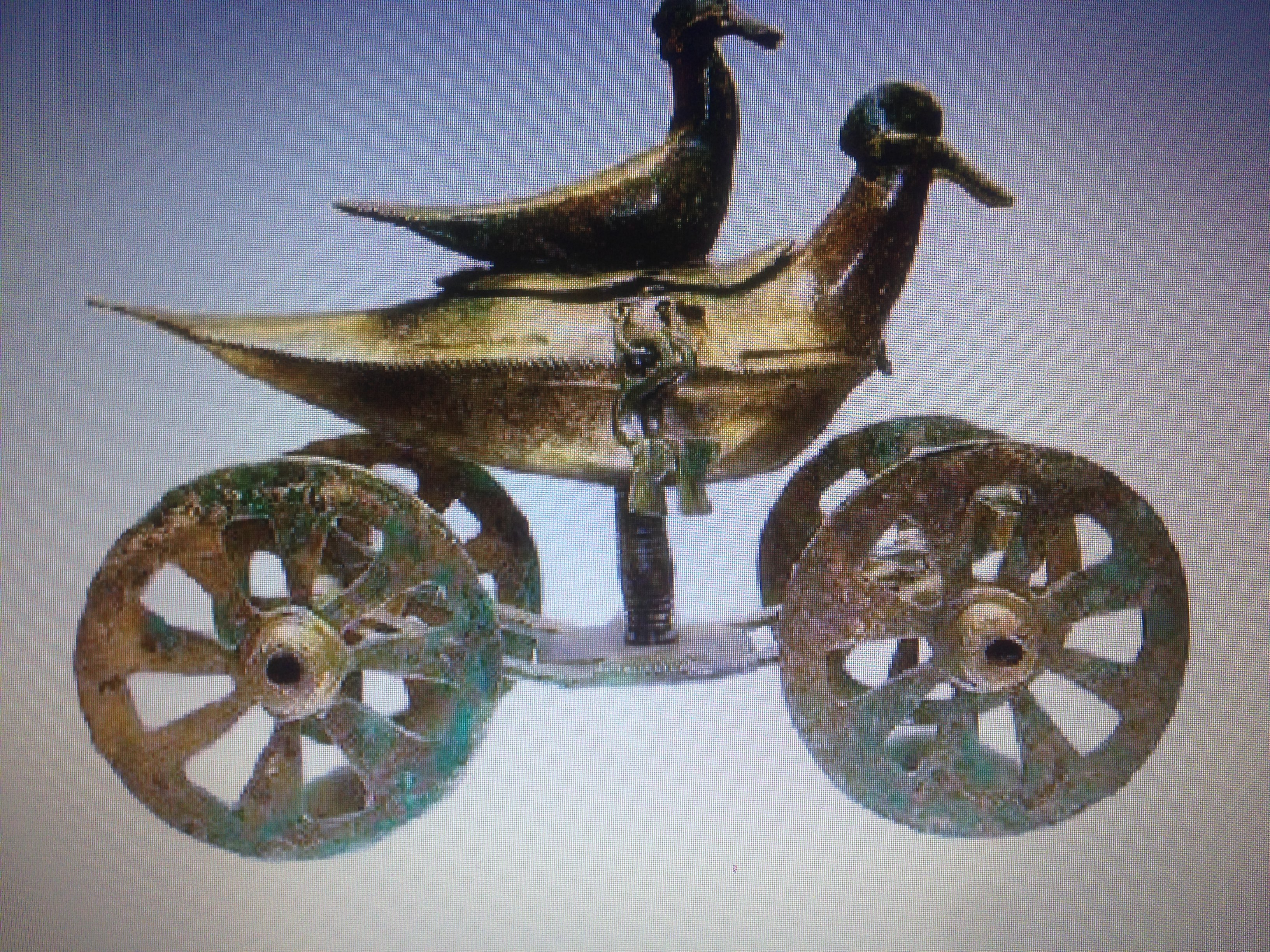 Illyran art Glasinac 600 BC